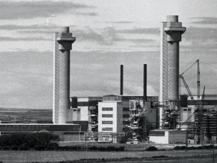 The chimneys and works of the plutonium factory of Windscale.